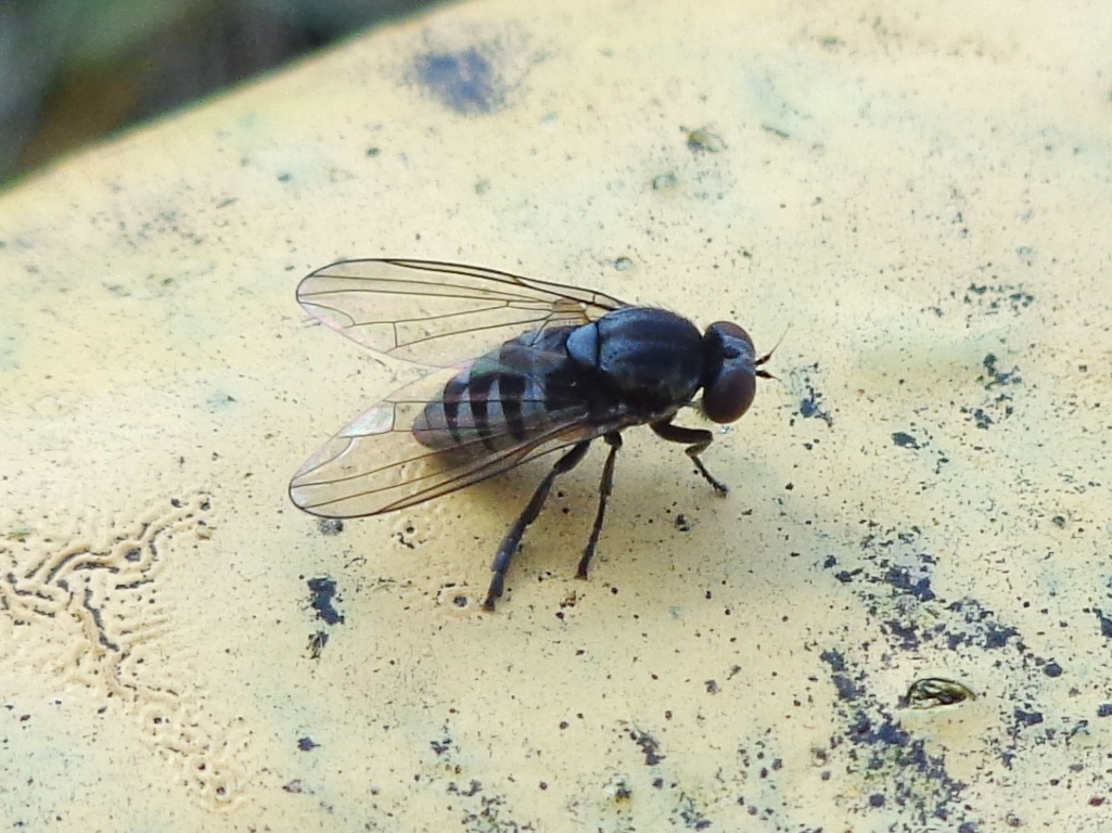 Platypeza hirticeps. Found in Riga town, Latvia